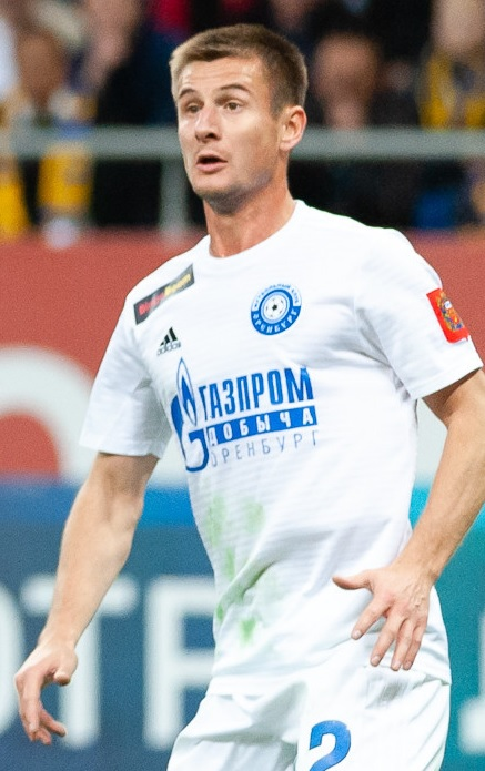 Andrei Malykh with FC Orenburg in a game against FC Rostov.